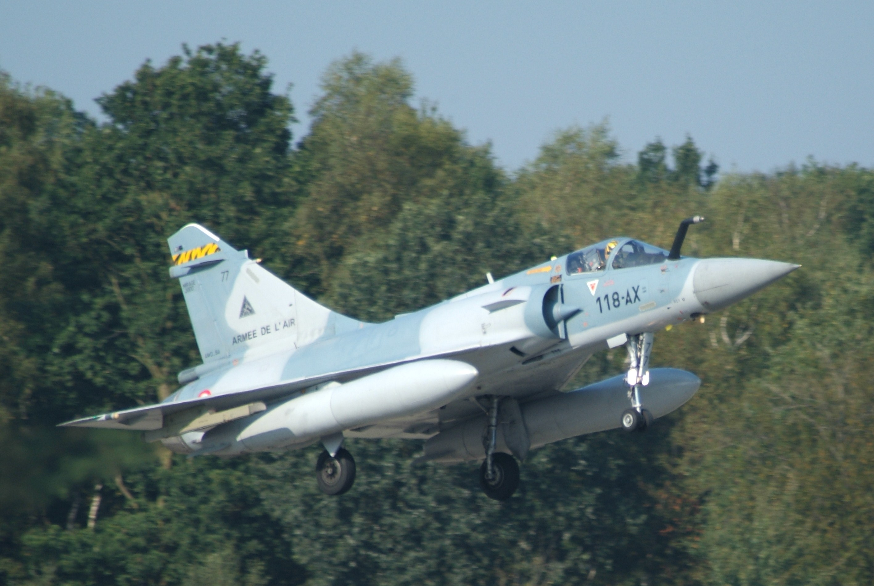 77 / 118-AX an AMD Mirage 2000-5F of EC.02.330 'COTE D'ARGENT' based at BA118, Mont de Marsan, France